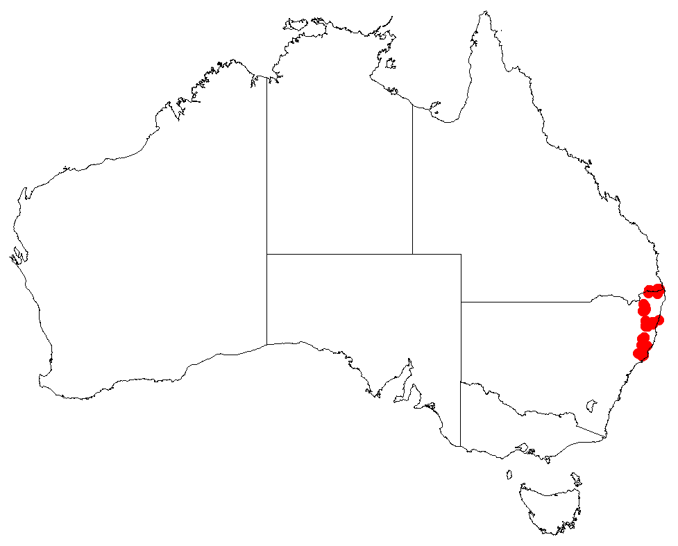 Parsonsia induplicata Occurrence data for Australia from Australasian Virtual Herbarium downloaded 22 December 2018